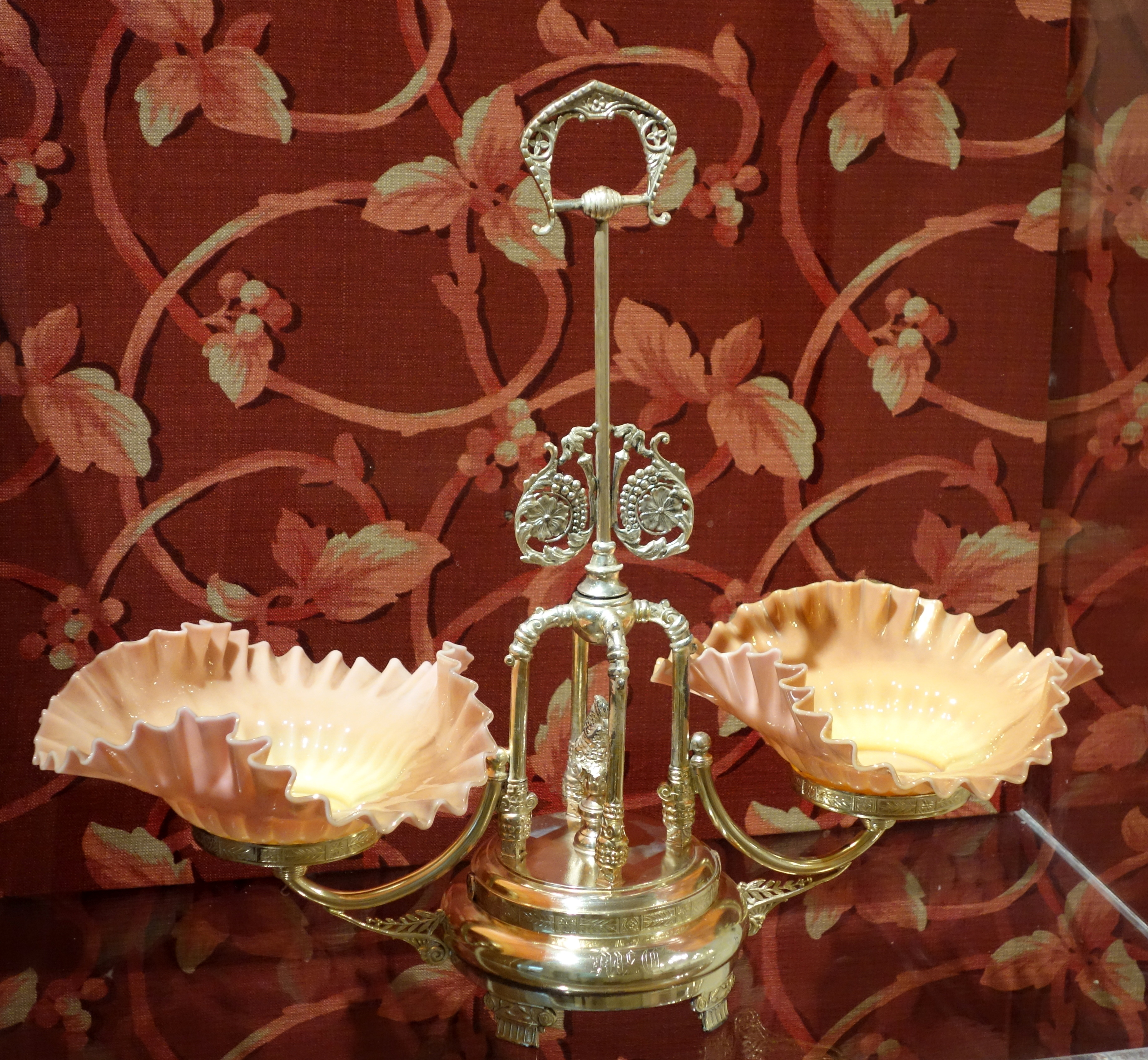 Exhibit in the Huntington Museum of Art, Huntington, West Virginia, USA. This artwork is in the public domain because the artist died more than 70 years ago.